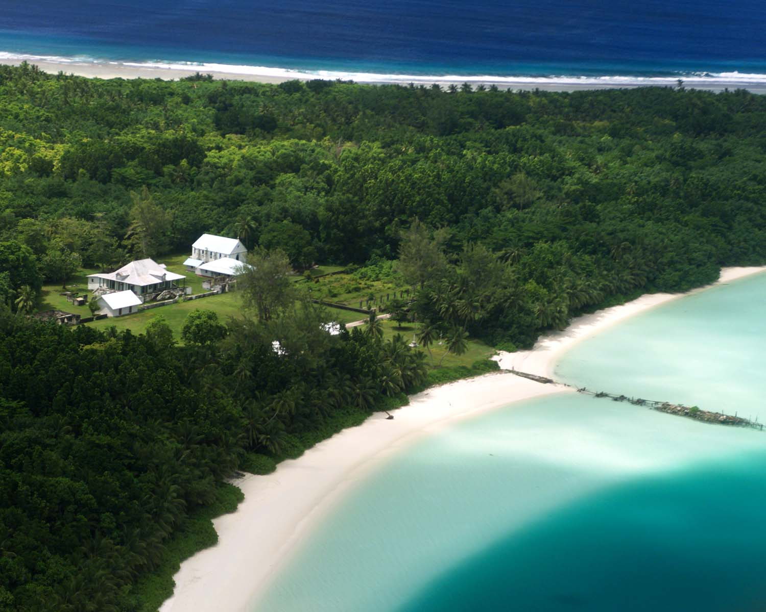 Aerial photograph of the coconut plantation at East Point, Diego Garcia. Photograph shows strip of land between both ocean and lagoon. The island hosts a large airstrip used by the U.S. Armed forces during the Gulf war for operating B-52s. U.S. Submarines and Navy Seal teams have also populated the island in the past. In 1986 The USS Saratoga (CV 60) was docked at the island when it was called away to respond to threats by Lybian Leader Momar Kadaffi and the "Line of Death" in the Gulf of Sidra (also known as the Gulf of Sirte). The carrier left its port while many of its ±4500 sailors were still on the island, which subsequently had to be airlifted via helicopter as the ship made its way to the Mediterranean. The Saratoga spearheaded the assault on the African Nation.